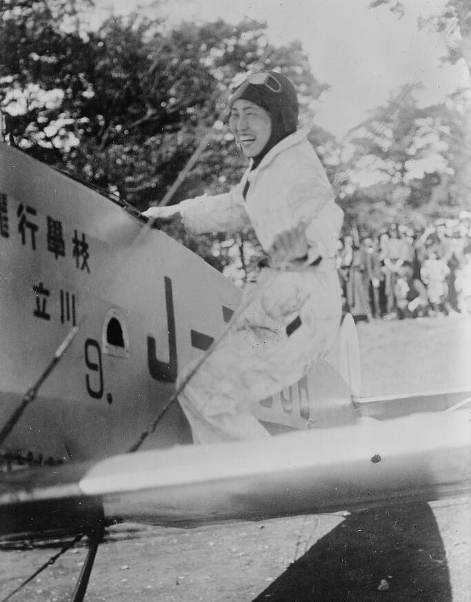 Bain News Service,, publisher. Miss Boku [1927 June 22] (date created or published later by Bain) 1 negative : glass ; 5 x 7 in. or smaller. Notes: Title and date from unverified data provided by the Bain News Service on the negative. Photo shows Japanese aviatrix with airplane. Forms part of: George Grantham Bain Collection (Library of Congress). Format: Glass negatives. Repository: Library of Congress, Prints and Photographs Division, Washington, D.C. 20540 USA, General information about the Bain Collection is available at Higher resolution image is available (Persistent URL): Call Number: LC-B2- 4546-15